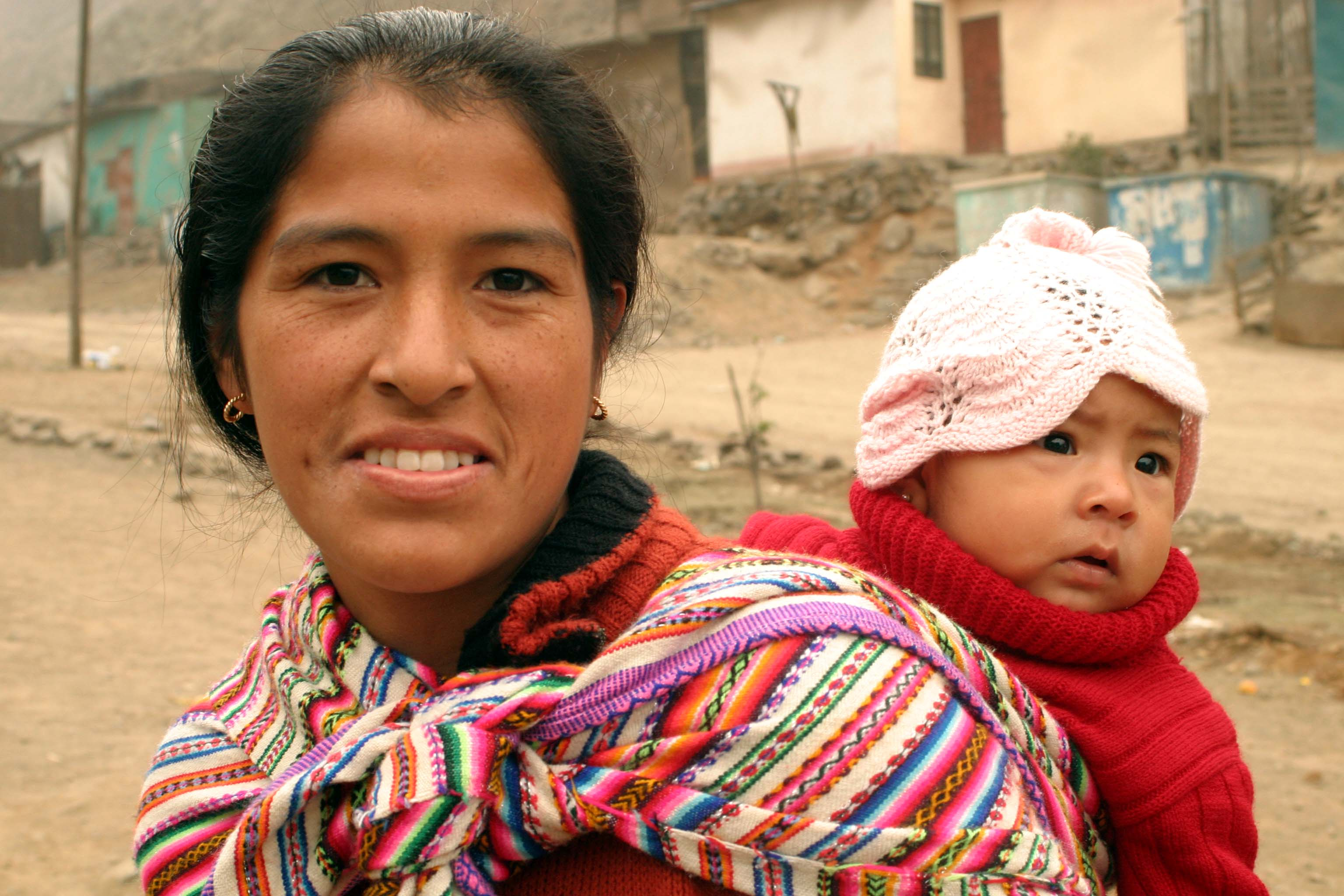 Shot this in the hills above Lima, Peru. The woman posed and the child didn't.Baby got Back